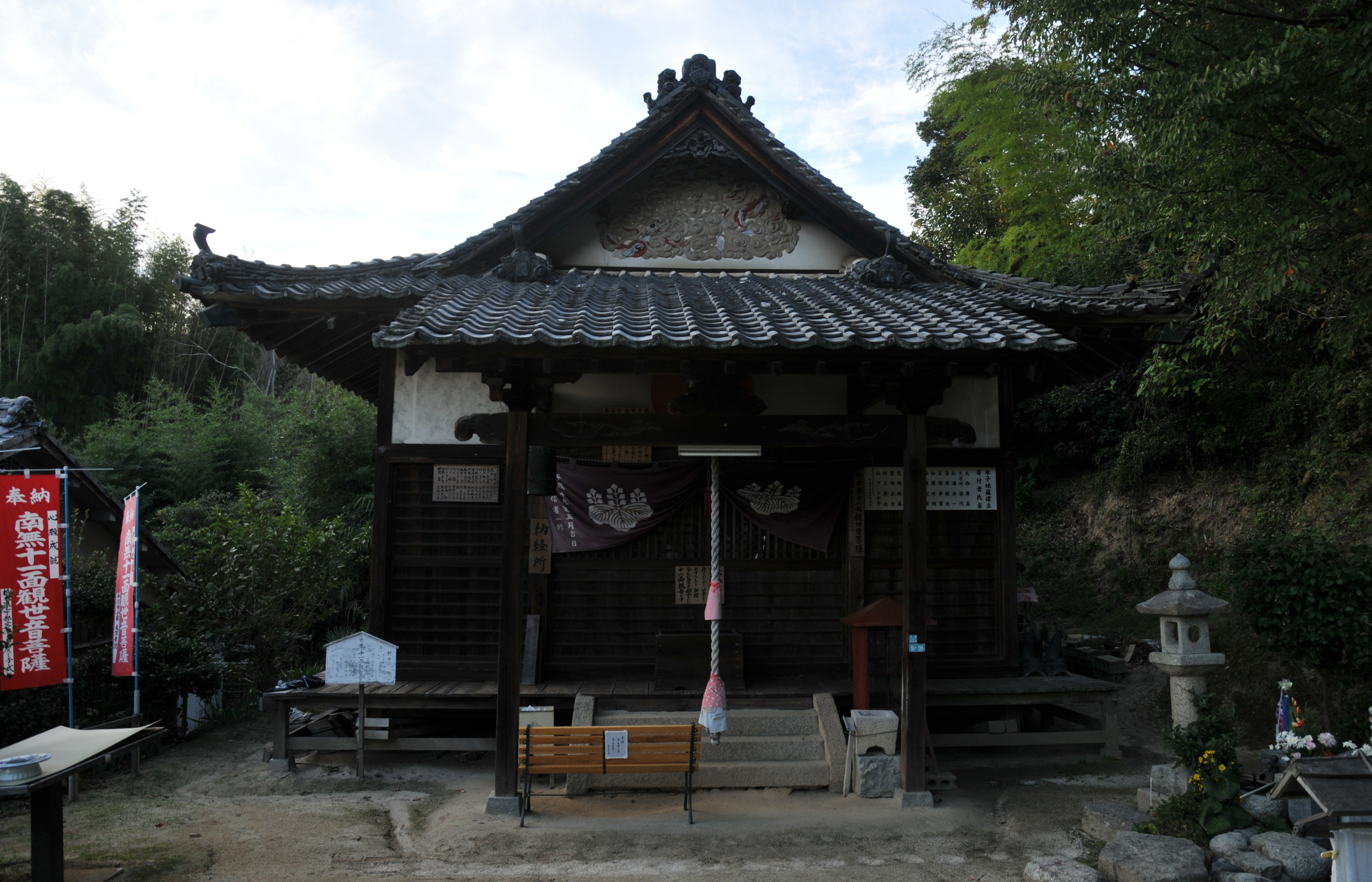 Ryūsen-ji temple